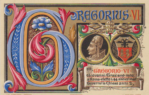 Pope Gregory VI (1045-46) - his face and coats of arms on card